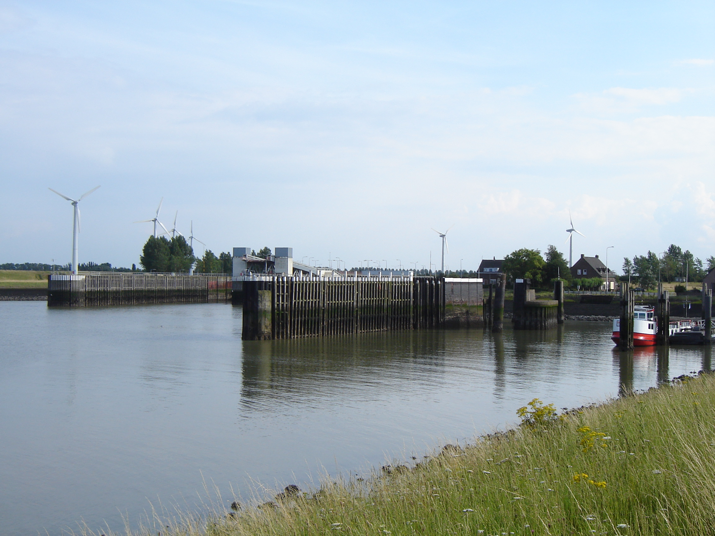 (Former) ferry port in Perkpolder, Hulst, Zeeland, Netherlands.